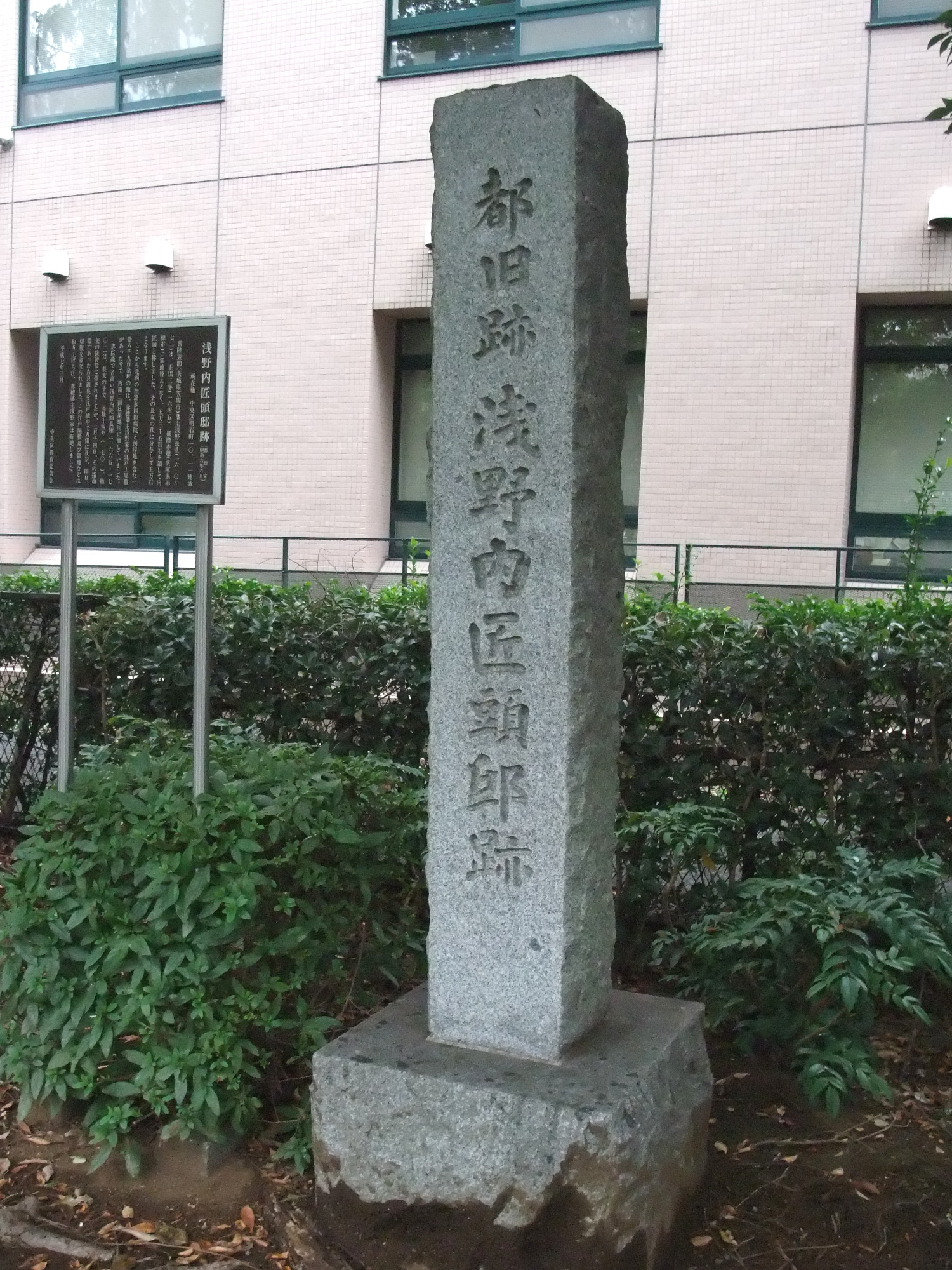 Historic site of the mansion of Asano Takumi no Kami in Chuo-ku, Tokyo